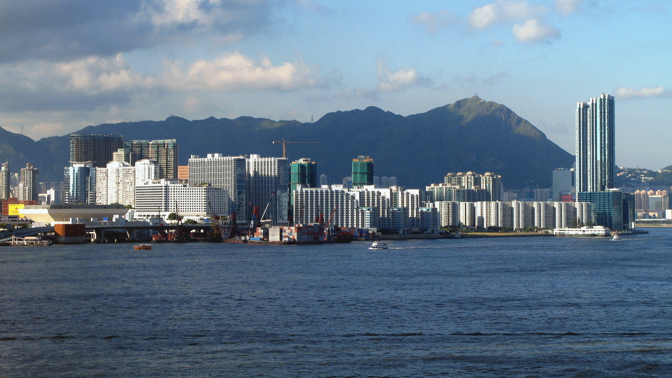 Hung Hom